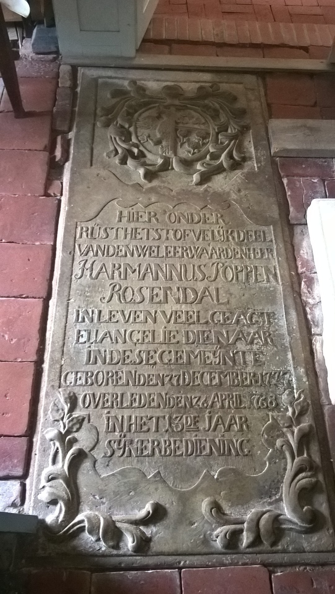 Reformed church in Oldendorp, district of Leer, East Frisia, Germany